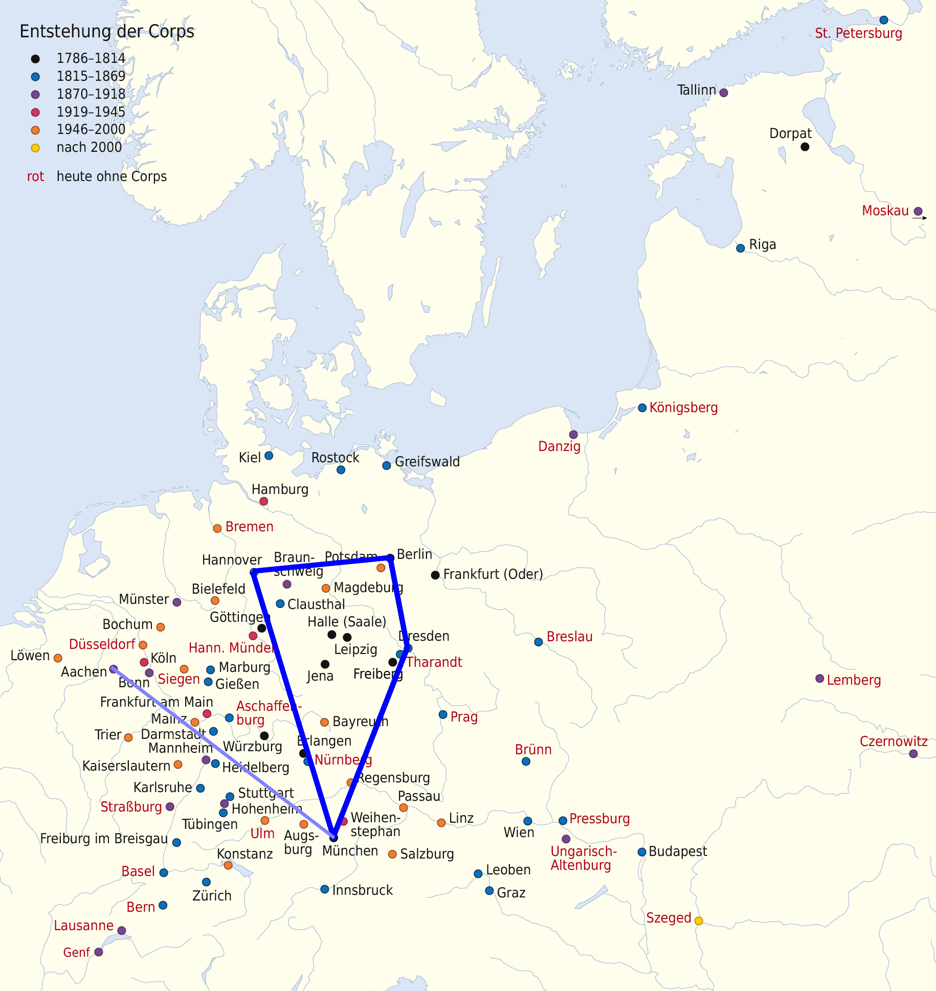 Corps locations of the Blaues Kartell linked with the blue band.